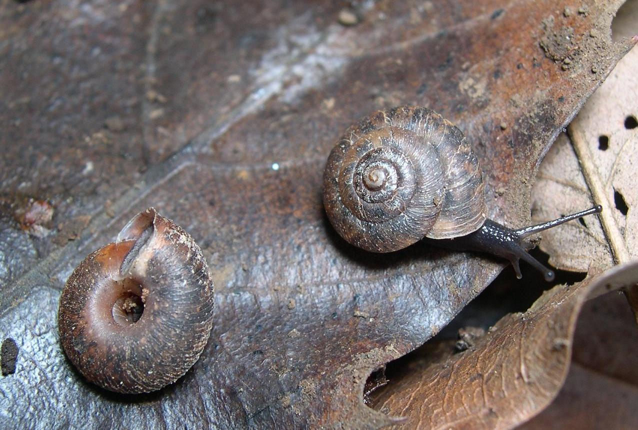 Aegista tokyoensis Sorita, 1980 (Pulmonata:Stylommatophora:Bradybaenidae), Nerima, Tokyo, Honshu, Japan. A small species of land snail (shell diameter:8-9mm) found in the leaf litter of the Kantō region and adjacent area. トウキョウコオオベソマイマイ（オナジマイマイ科）。東京都練馬区。落ち葉層に生息。 Reference: Eiichi Sorita, A new species of the Genus Aegista (s.s.) from the Koishikawa Botanical Garden, Tokyo. Venus (Jap. Jour. Malac.) 39(3):142-147, 1980.